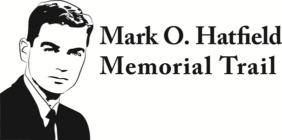 Mark O. Hatfield Memorial Trail Sign Proposed by Hannah Rae 2012.